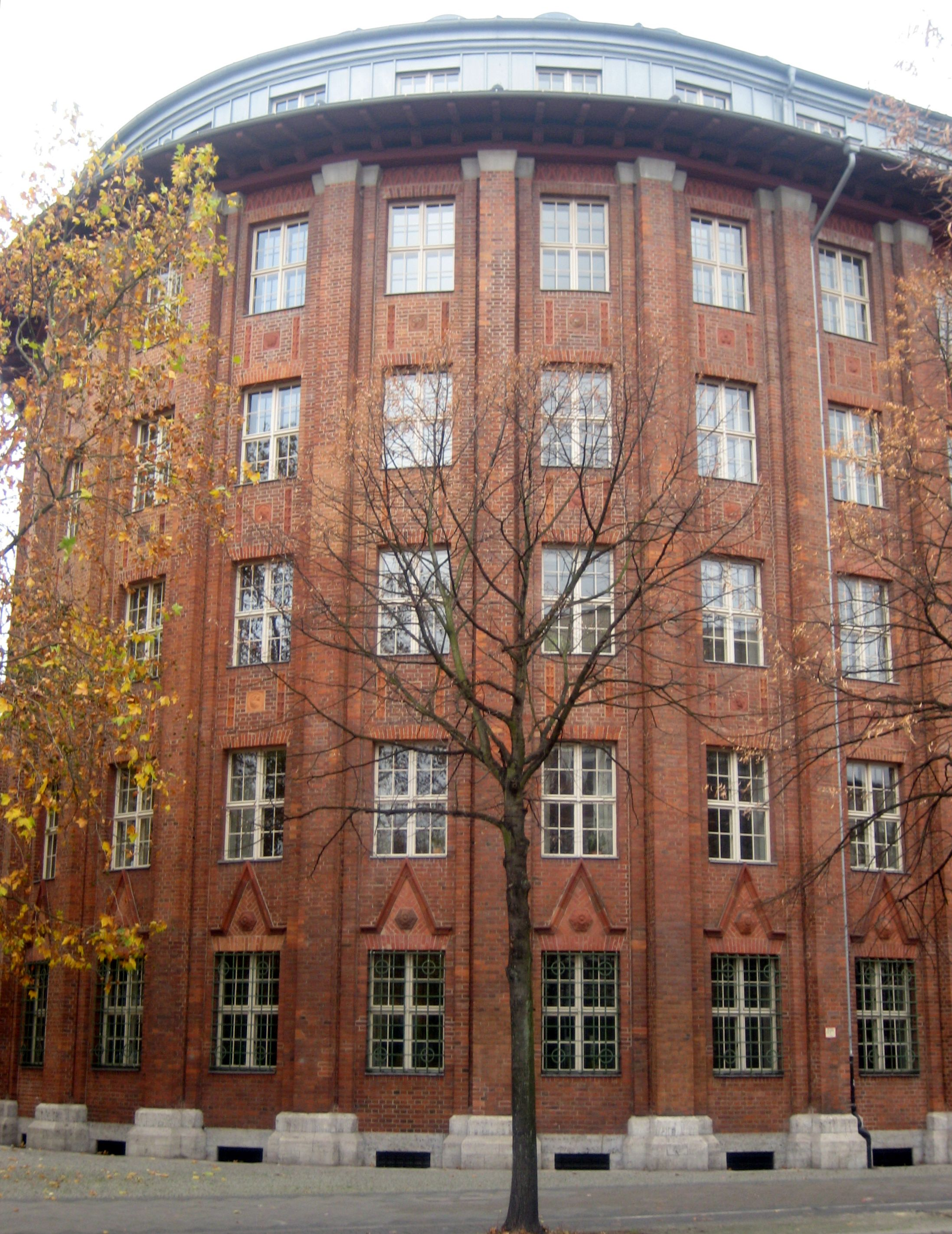 building of the former Reichsschuldenverwaltung (lit.: Reich's Debt Administration) at Berlin-Kreuzberg, Oranienstraße / Alte Jakobstraße; built 1919-1924 by archtict German Bestelmeyer